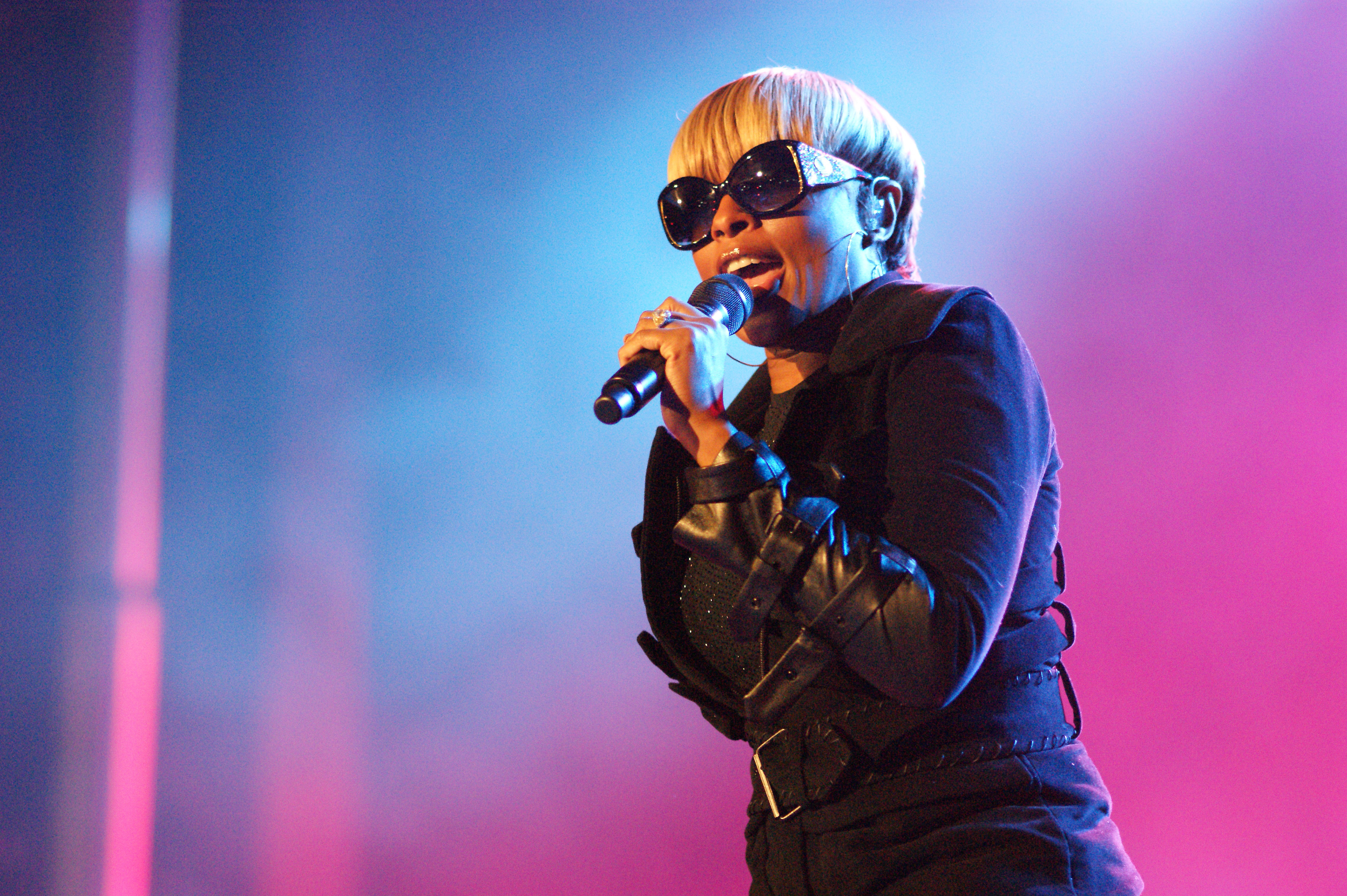 Mary J. Blige, Bumbershoot 2010